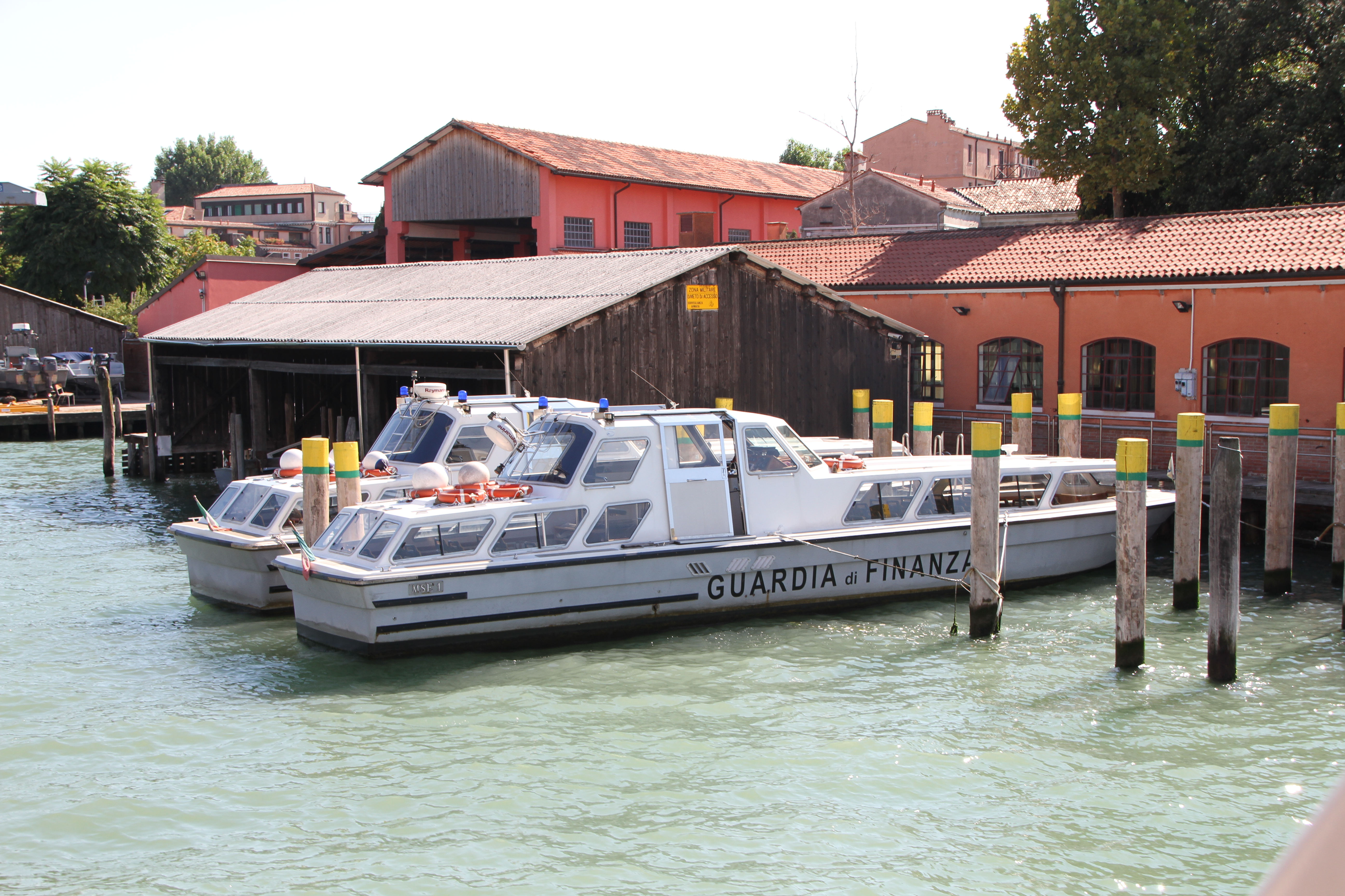 Customs patrol boats belonging to the Guardia di Finanza, in Venezia, Italy